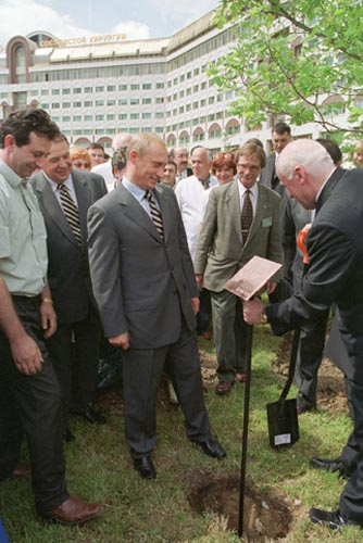 MOSCOW. A tree planting ceremony at the walkway in front of the Bakulev Cardiovascular Surgery Research Centre.